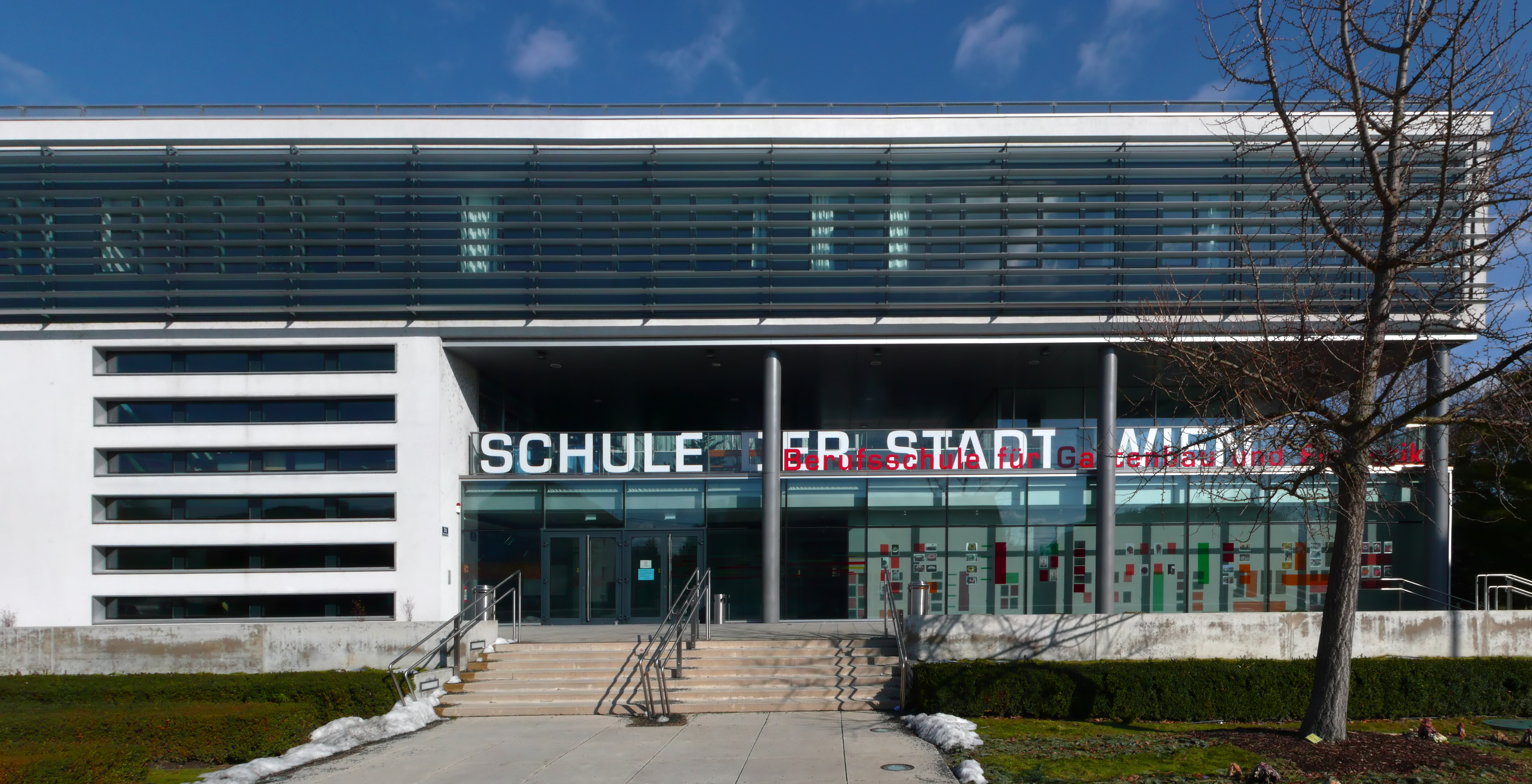 High School for Gardening and Floristry in Vienna Donaustadt